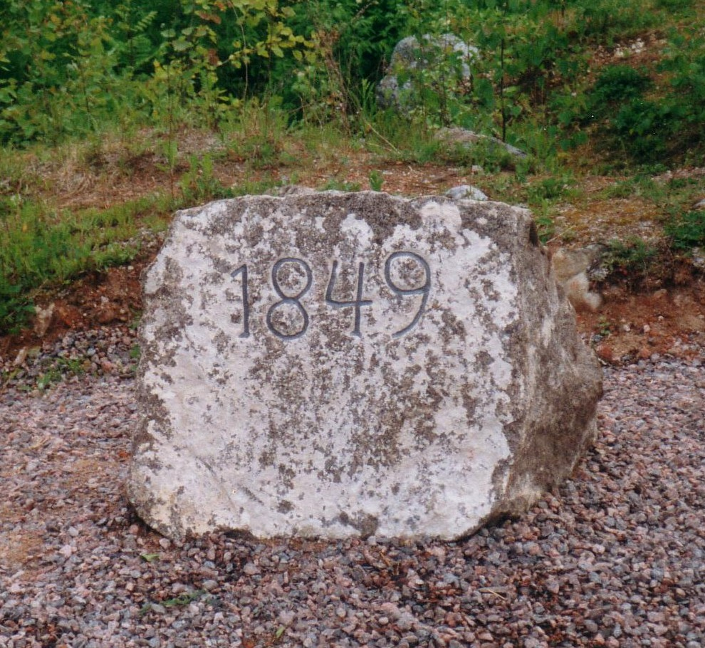 The foundation stone of the Muolaa (lutheran) church in the Finnish Karelia ceded to the Soviet Union in 1944.